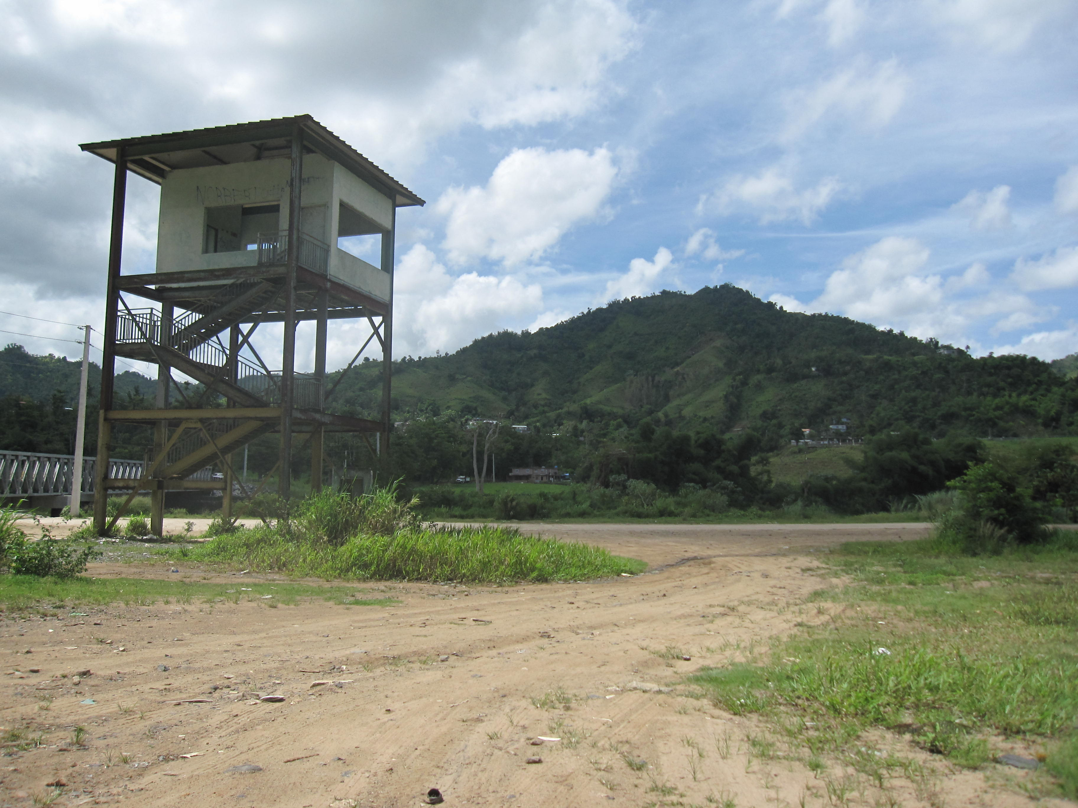 Unfinished racetrack in San Lorenzo barrio, Morovis, Puerto Rico